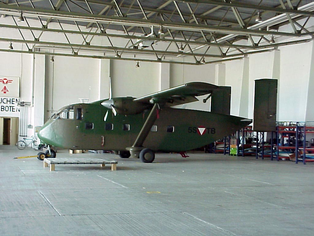 Short S.C.7 Skyvan Austrian Bundesheer